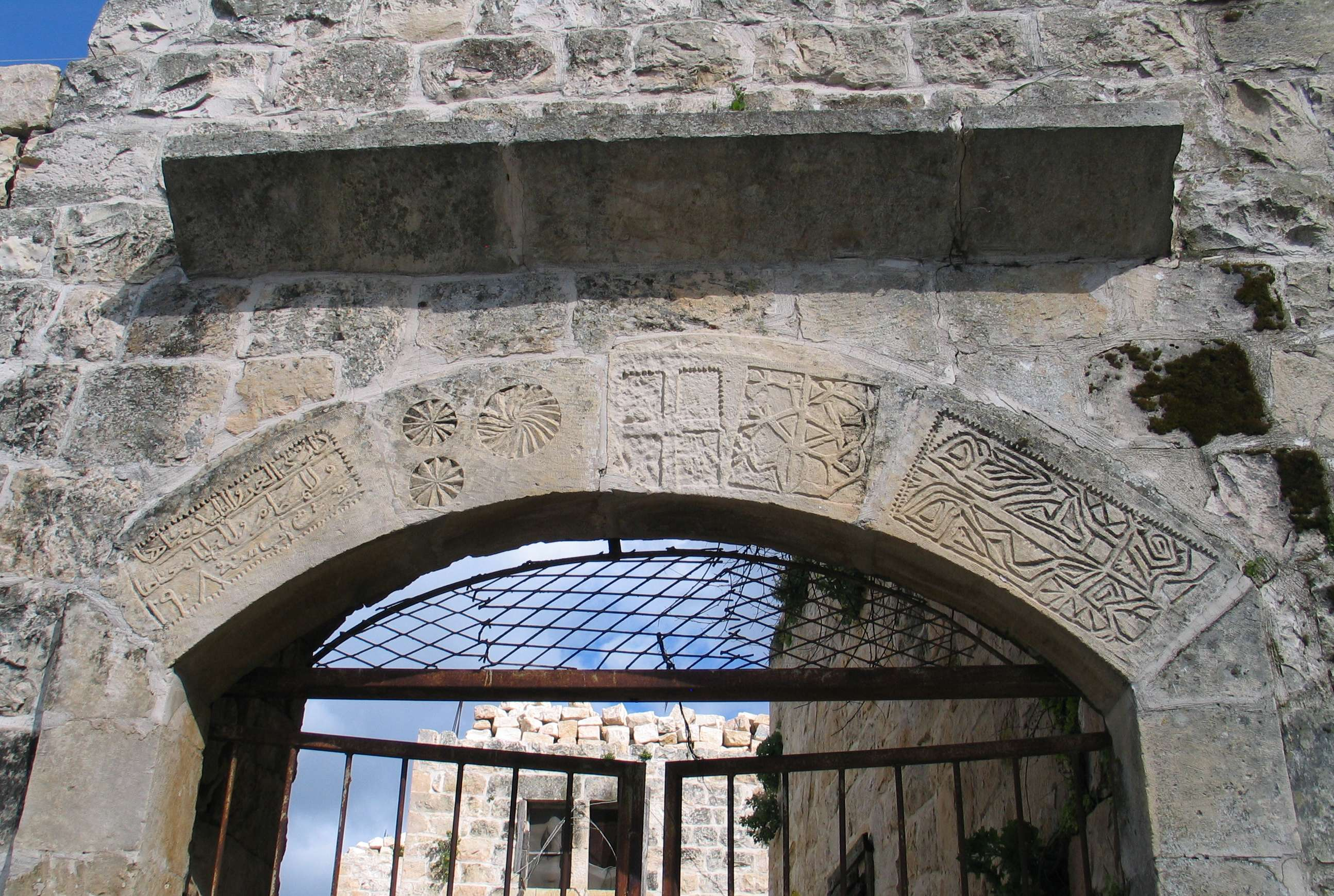 Mi'ilya, Israel.